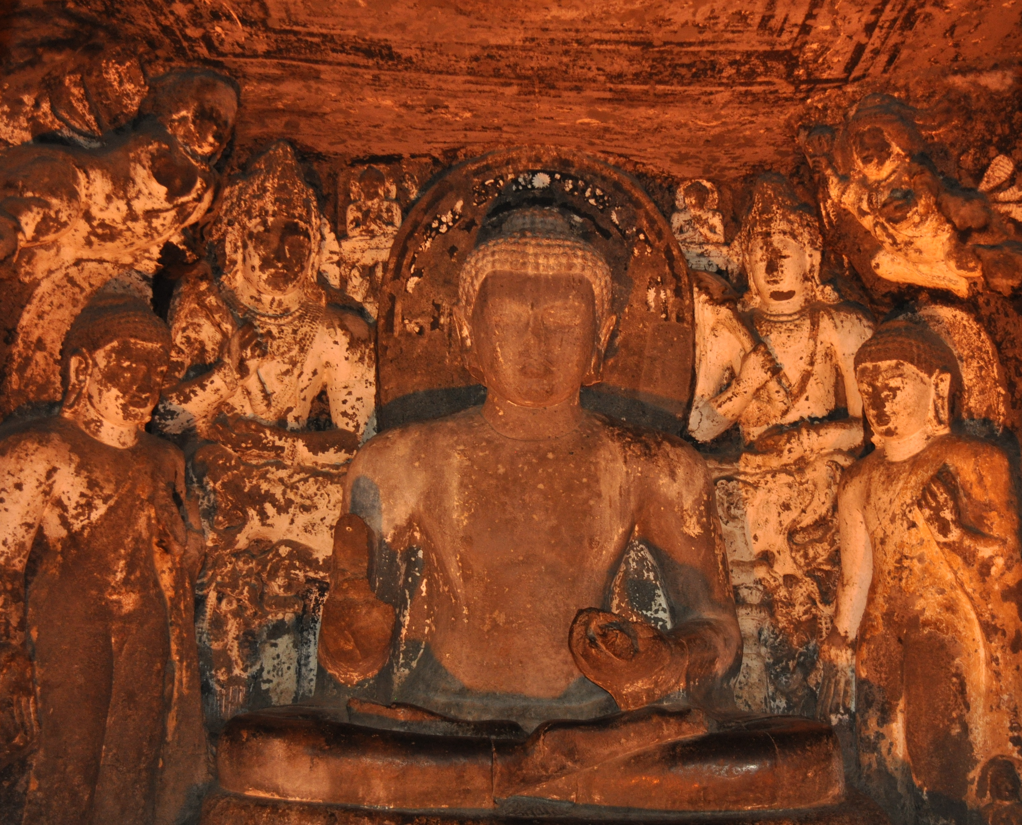 Ajanta Buddha statue aurangabad maharastra india